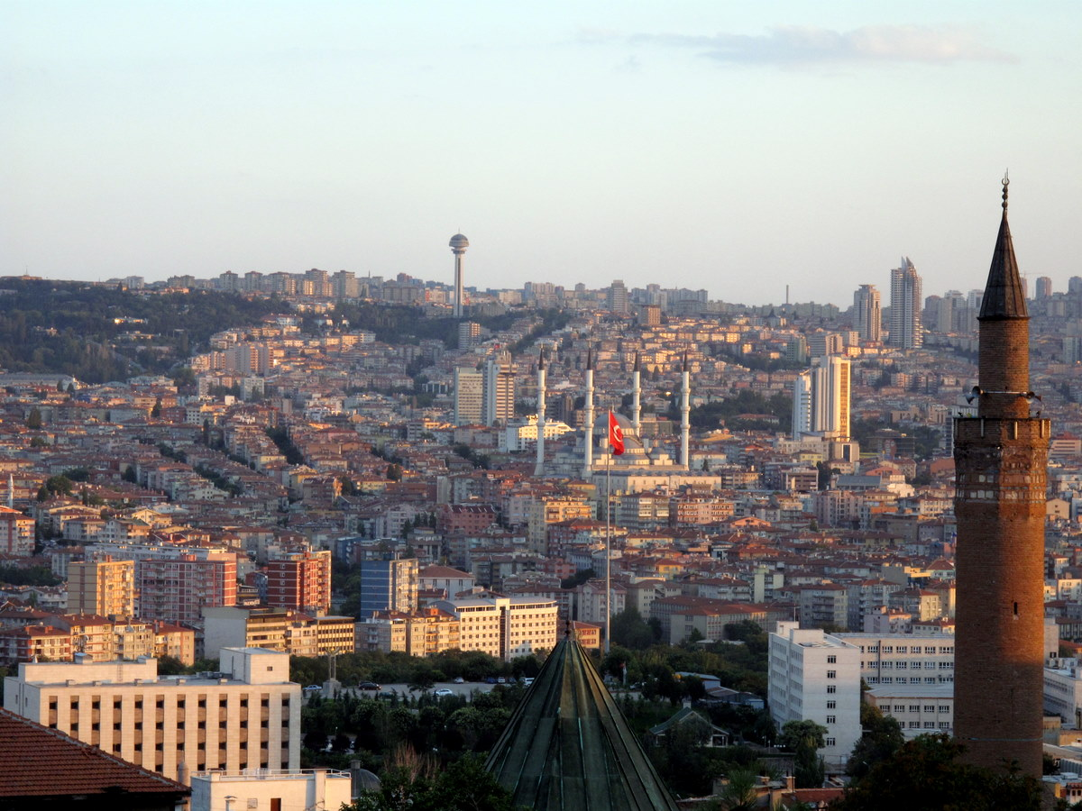 View of Ankara from above the Archeological Museum, seeing Kocatepe Mosque and Atakule.